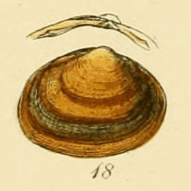 Cyclas rivicola Leach, accepted as Sphaerium rivicola[1]. From Illustrated Index of British Shells, Plate VI., Fig 18.